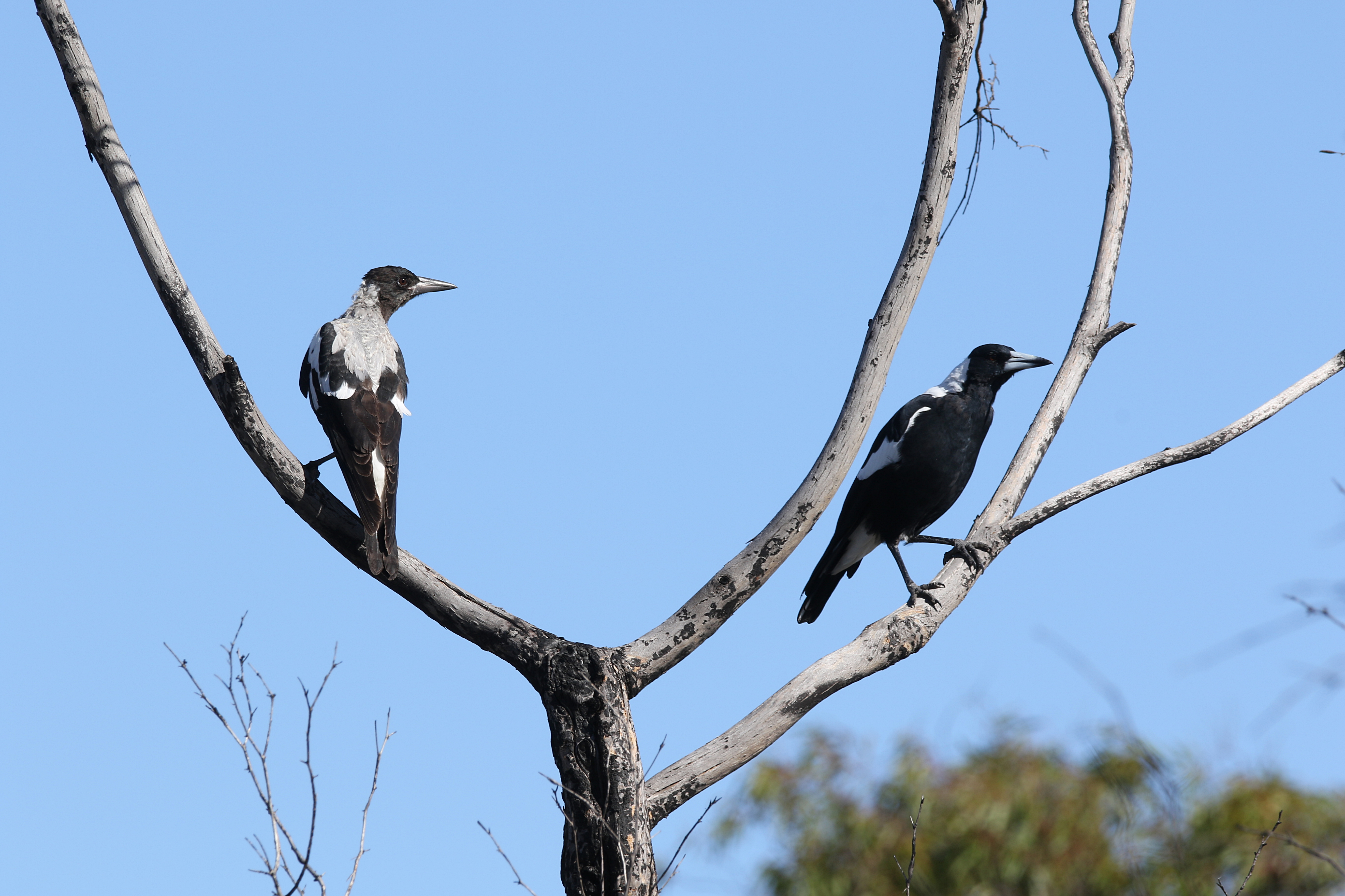 Cracticus tibicen (Latham, 1801), Australian Magpie, Little Desert National Park, VIC, 25 January 2017